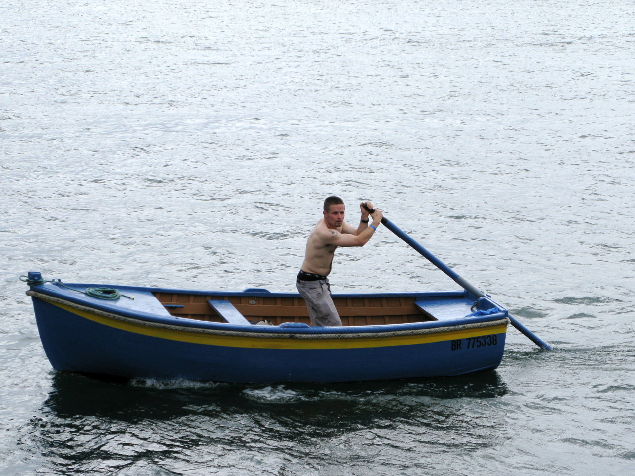 Single-oar sculling in Brest